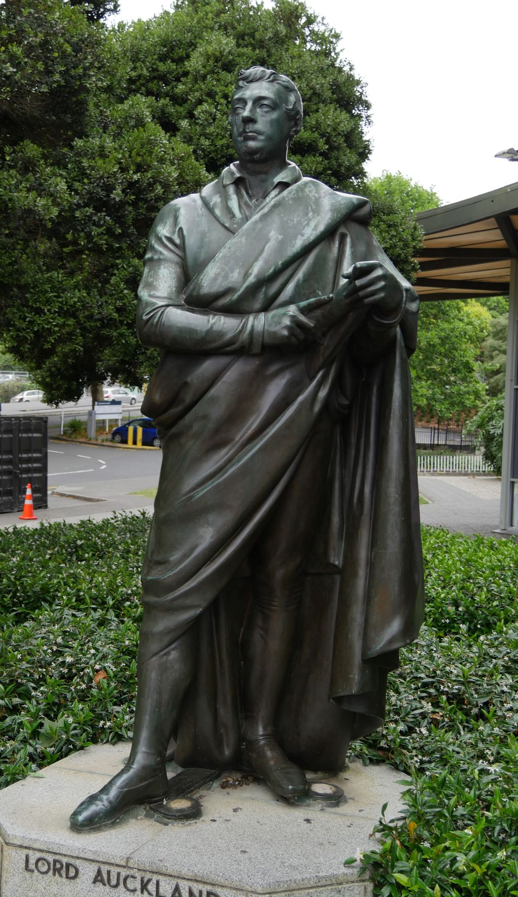 Statue of Lord Auckland, in front of Civic Service Building in Auckland, New Zealand. Statue was a gift, given 1969 from government of West Bengal to the City of Auckland. Before, statue was erected in Calcutta in 1848.